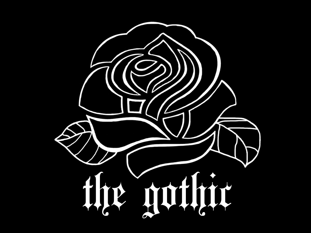 France